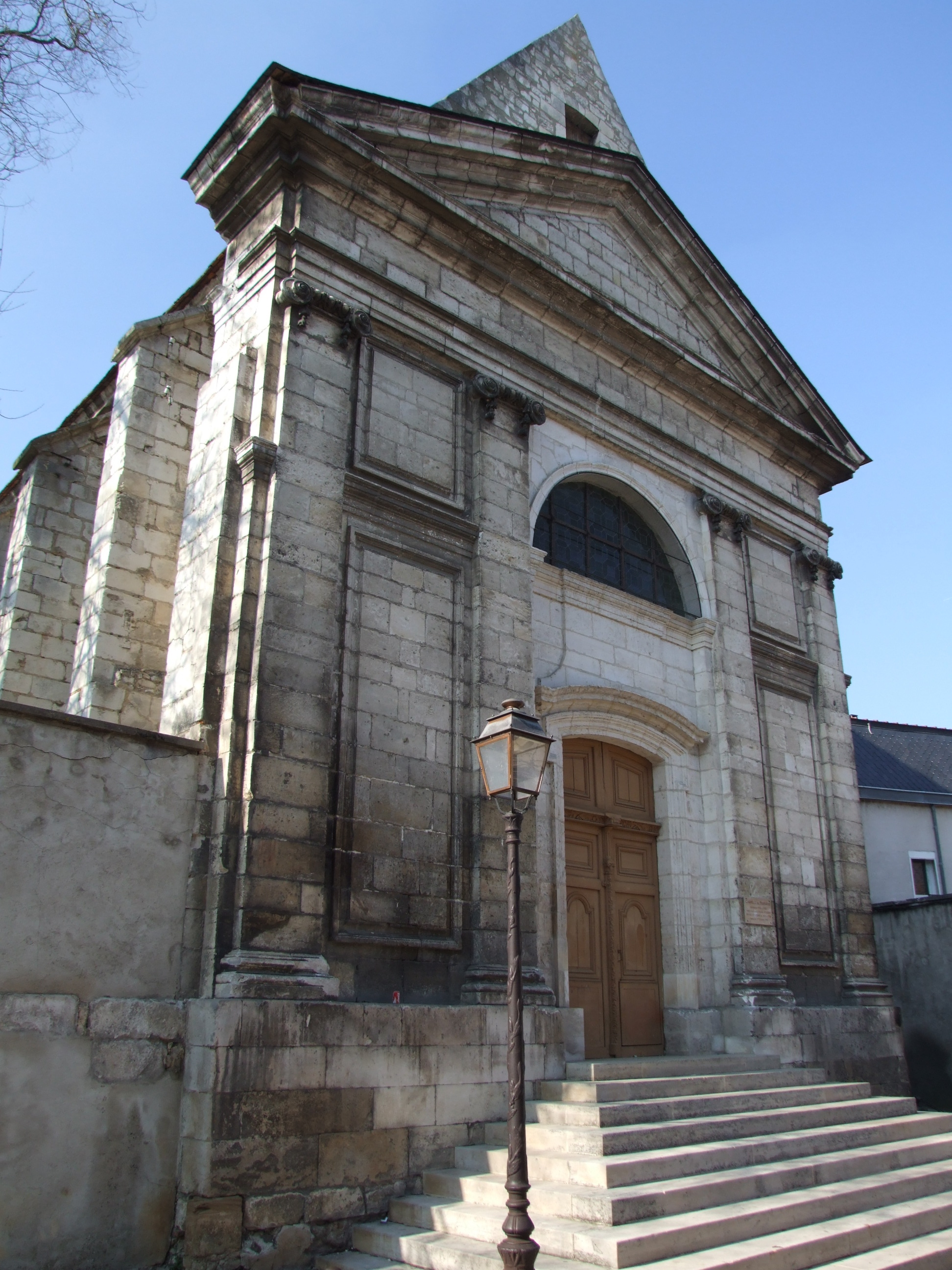 Auxerre, Burgundy, FRANCE